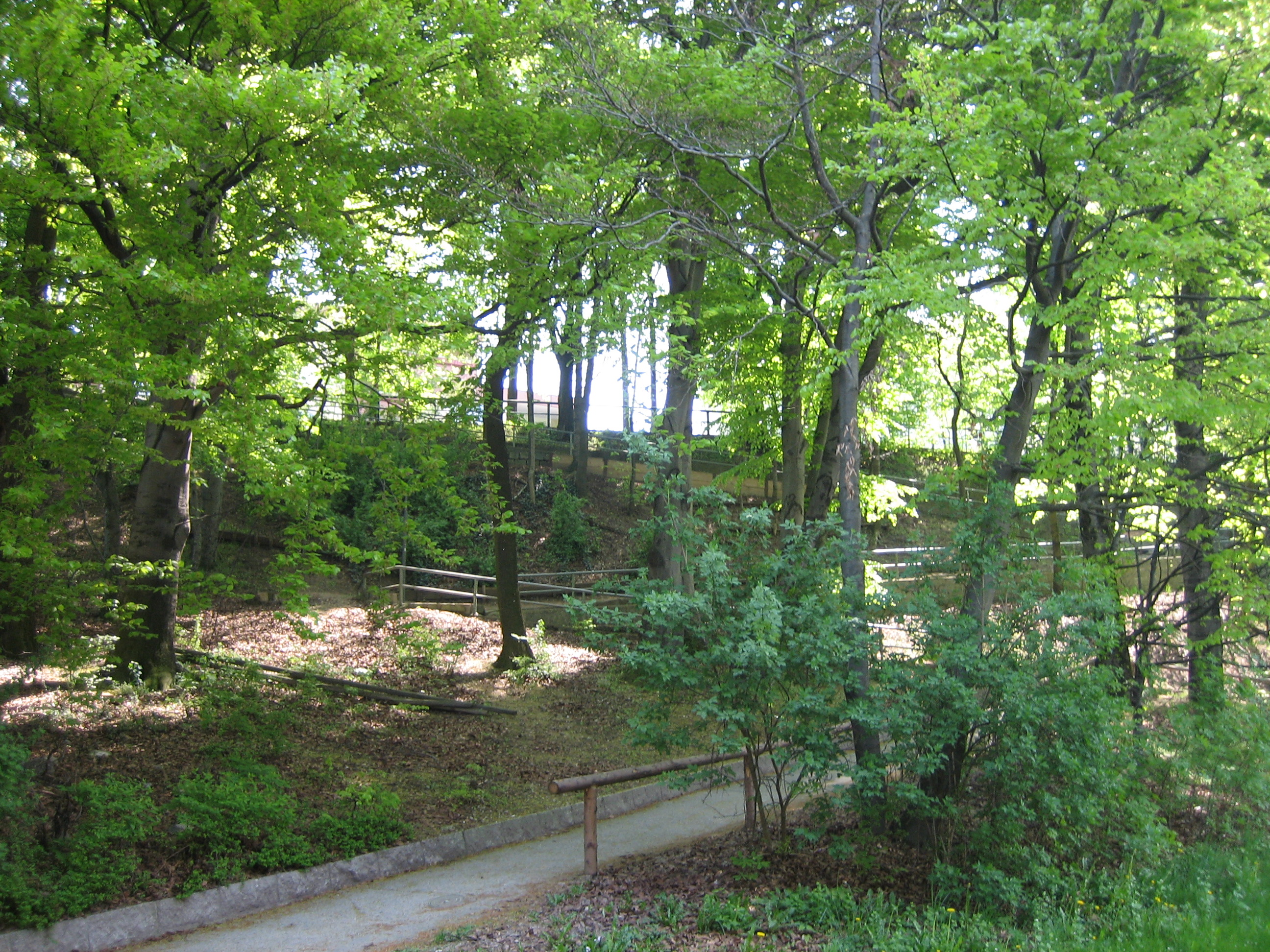 Ascent from the subway station Kolumbusplatz to the street Am Bergsteig, a popular way to the Munich Nockherberg